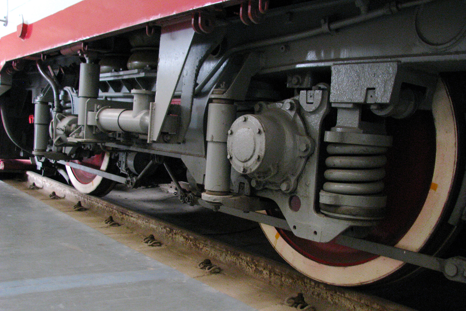 The bogie of China Railways SS5 electric locomotive